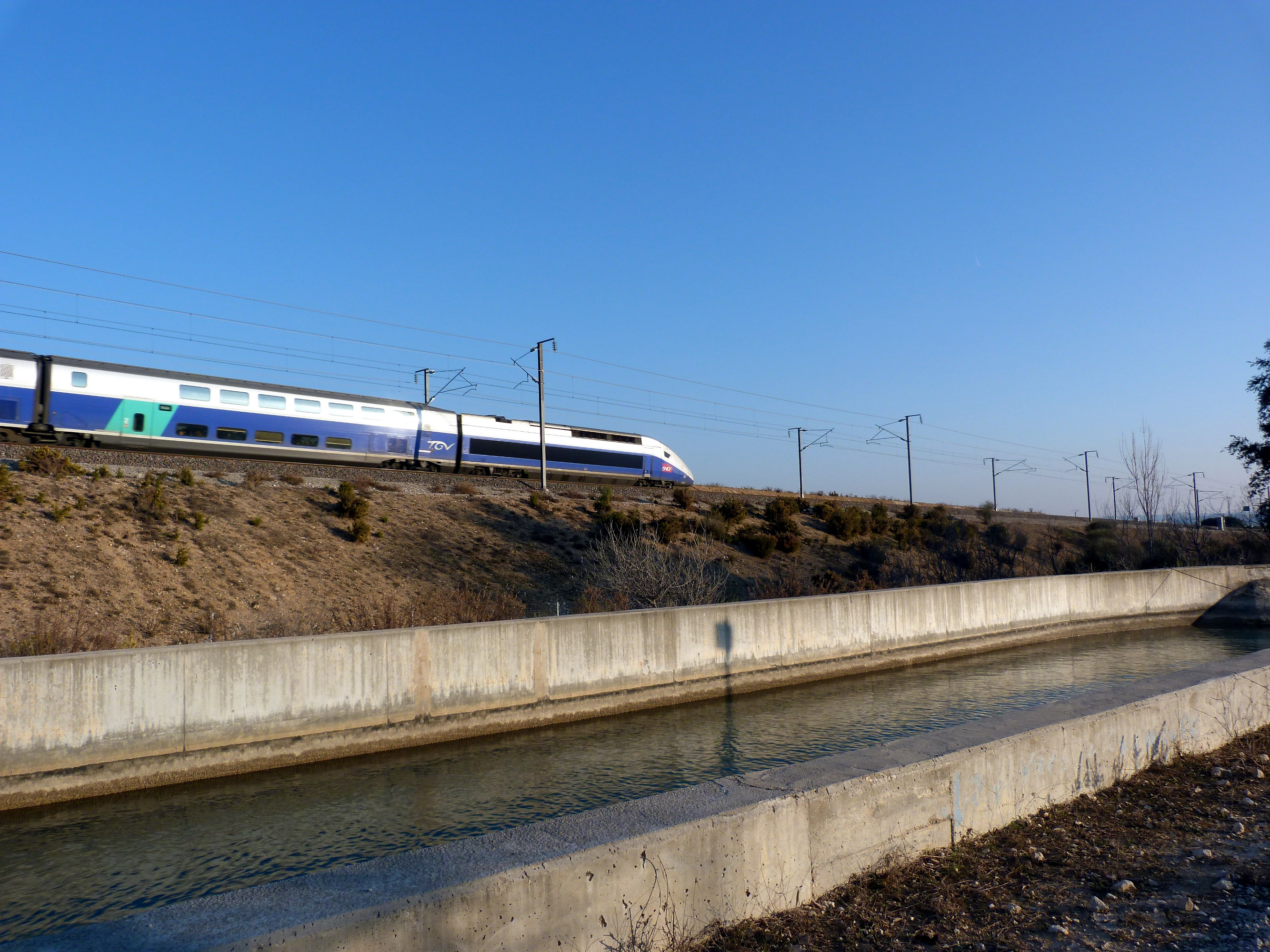 Mistake in the name of the file: it concerns obviously "LGV Méditerranée", not "LGV Sud-Est".